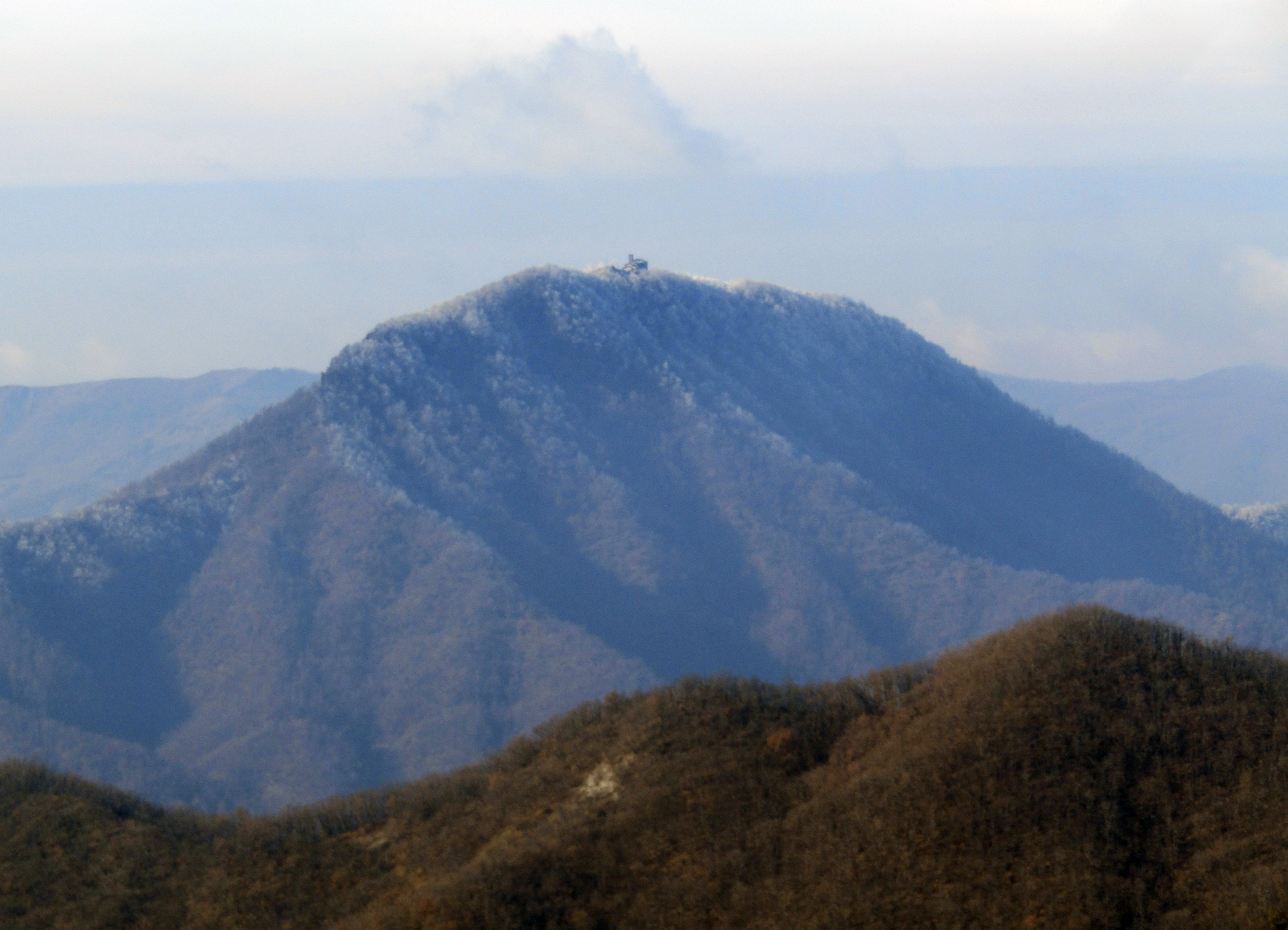 Monte Reale (Ligurian Apennine, Italy)